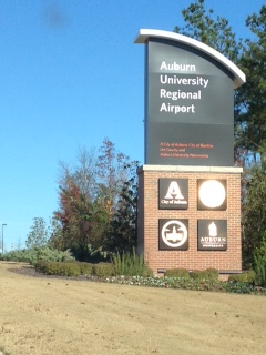 Sign for Auburn University Regional Airport - Robert G. Pitts Field (AUO/KAUO) located in Auburn, AL, USA.